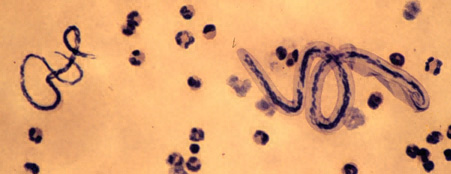 Filariasis Loa loa and M. perstans microfilariae Microfilariae of Loa loa (right) and Mansonella perstans (left). Patient seen in Cameroon. Thick blood smear stained with hematoxylin. Loa loa is sheathed, with a relatively dense nuclear column; its tail tapers and is frequently coiled, and nuclei extend to the end of the tail. Mansonella perstans is smaller, has no sheath, and has a blunt tail with nuclei extending to the end of the tail.